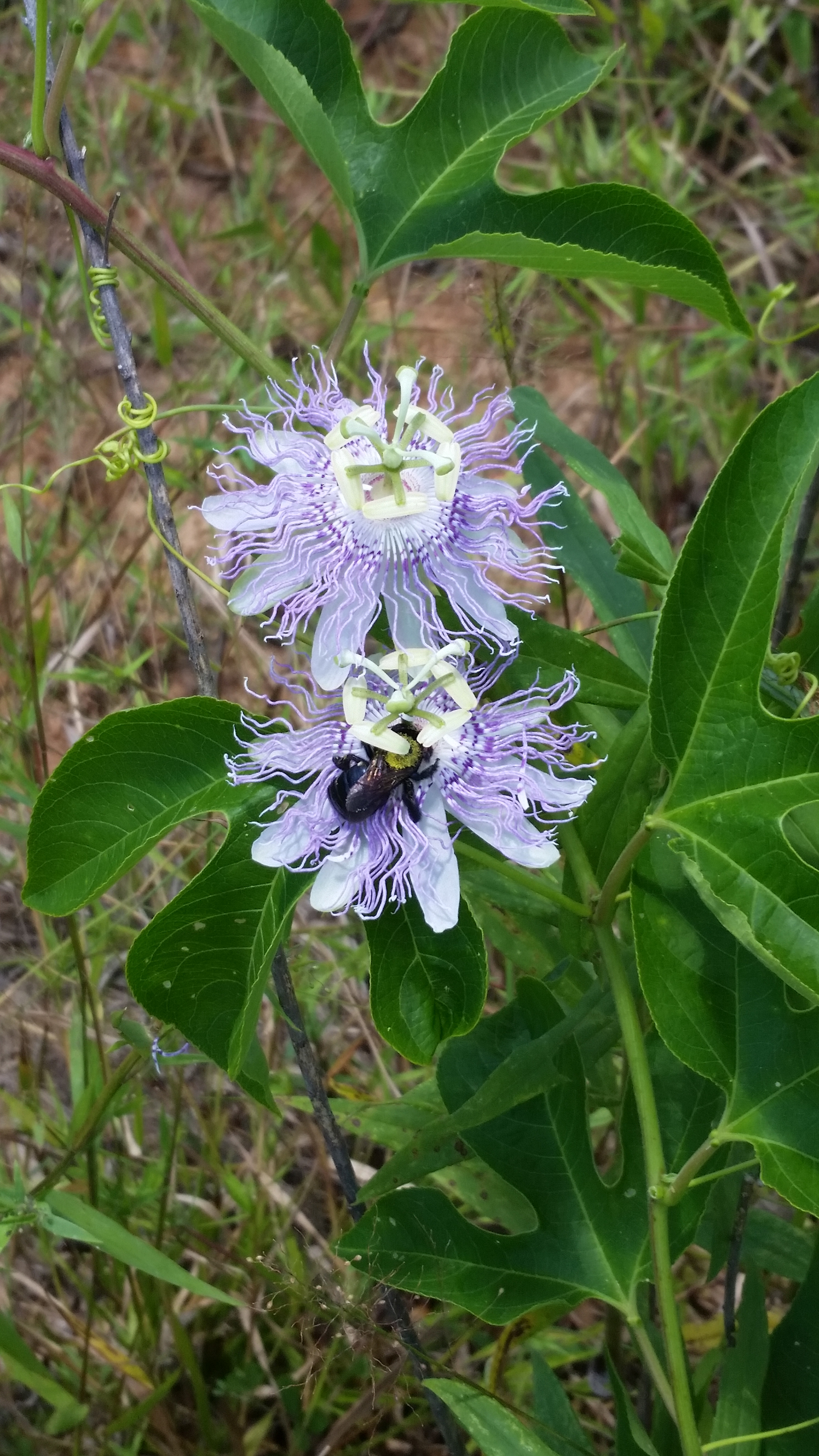 Passiflora incarnata flowers with Bumblebee pollination.